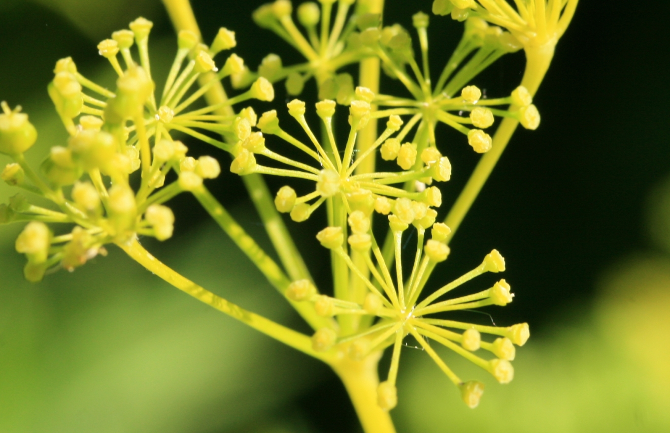 Smyrnium perfoliatum: Flowers